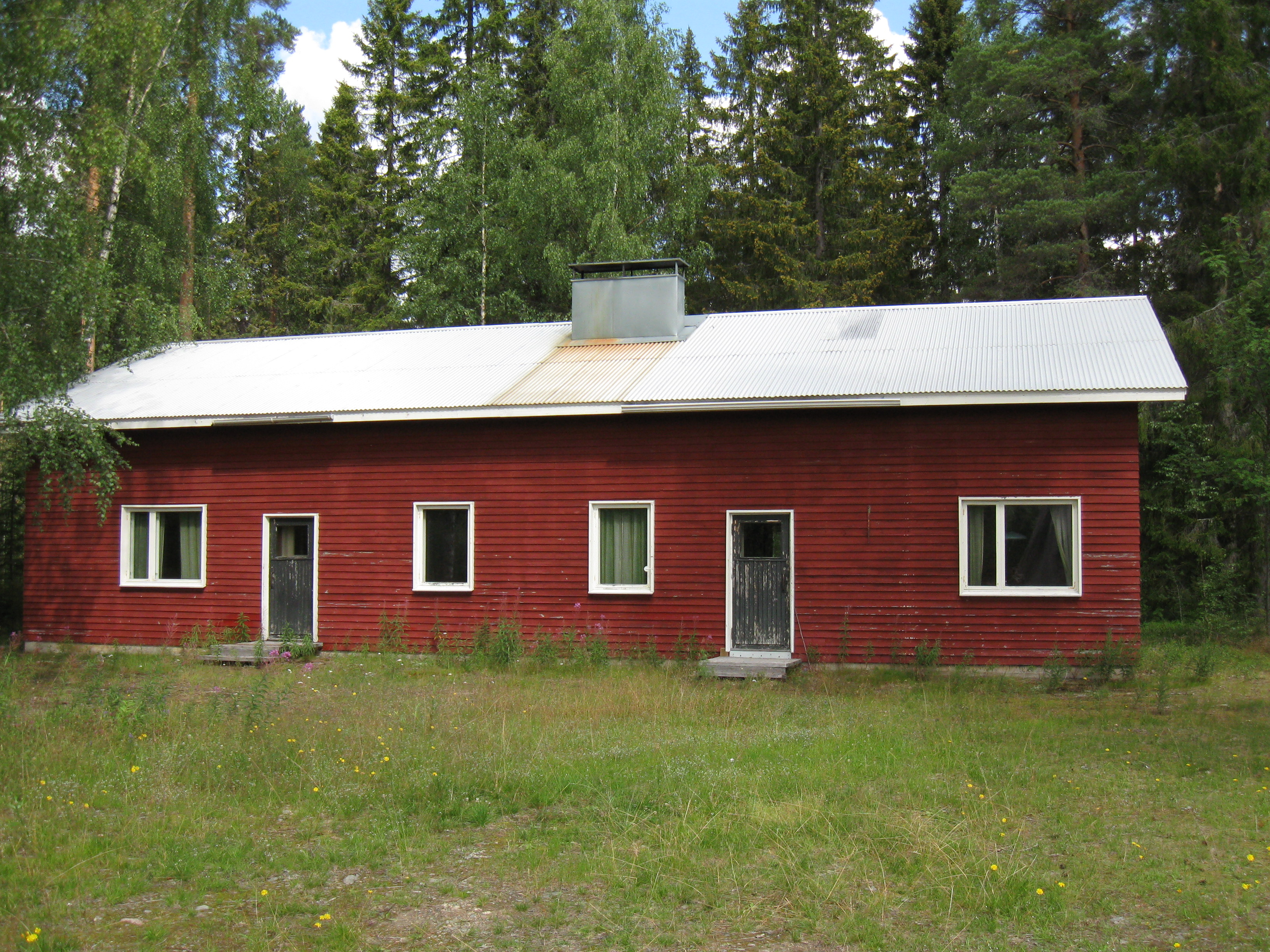 The main building of the former wood loggers' camp near Pontema lake in Utajärvi, Finland.